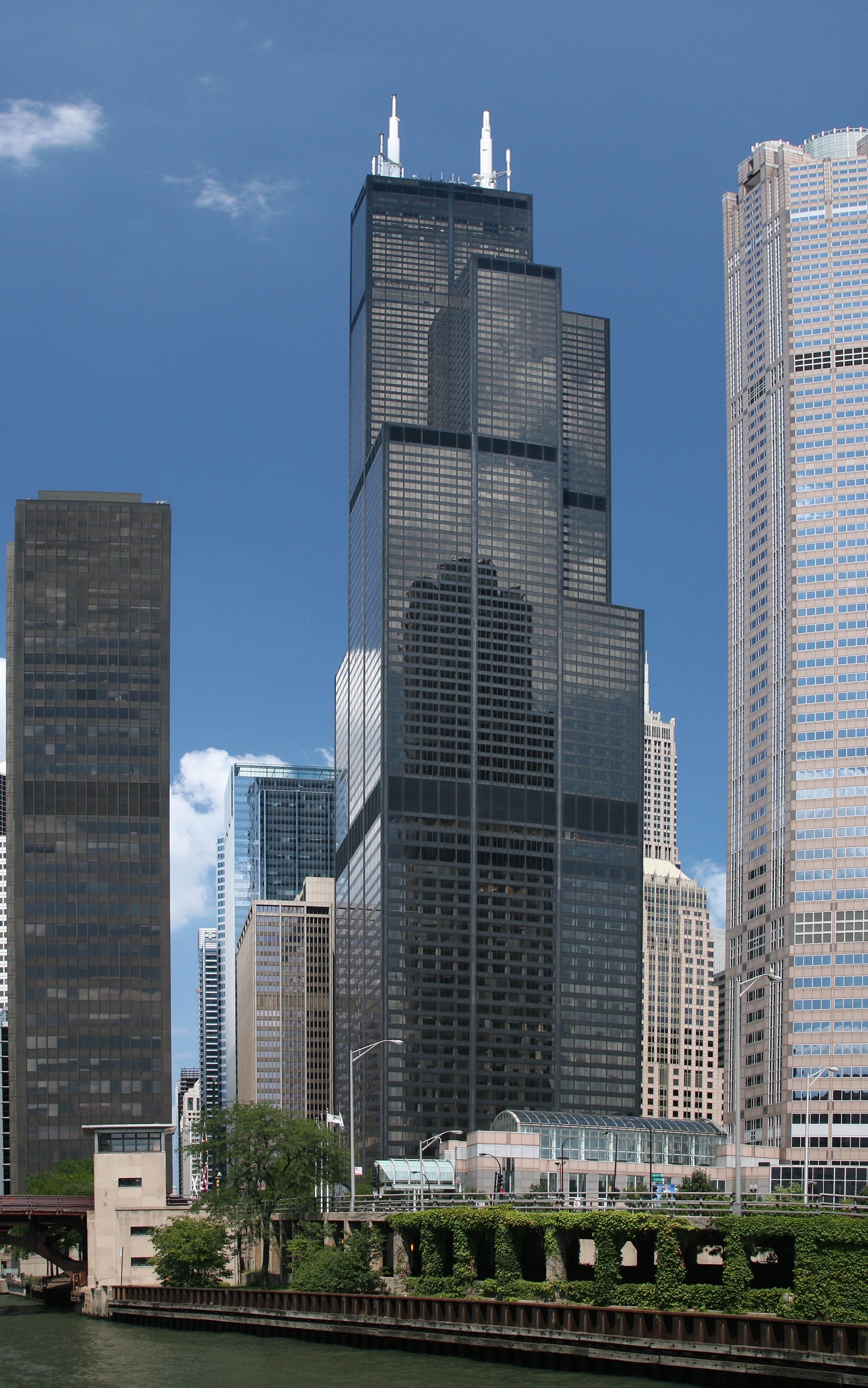 Willis Tower (formerly Sears Tower) in Chicago as seen from the Chicago river